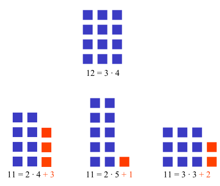 An illustration of how 12 is not a prime number, but 11 is.